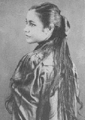 Marau Taaroa Salmon aged 15.